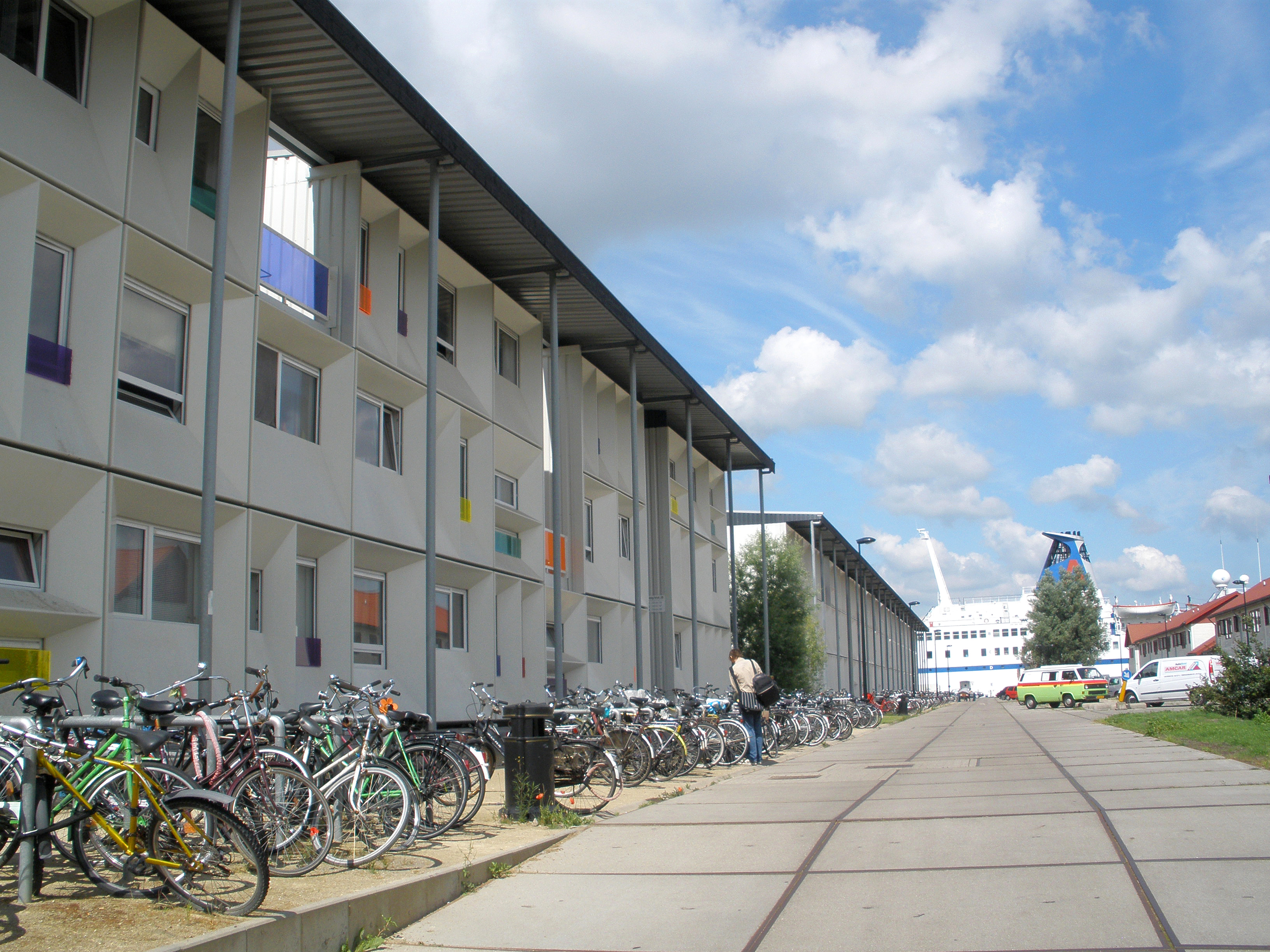 Temporary student housing in the Houthaven (Stavangerweg), a harbour in Amsterdam. The ship in the background, Rochdale One, was also used for student housing.